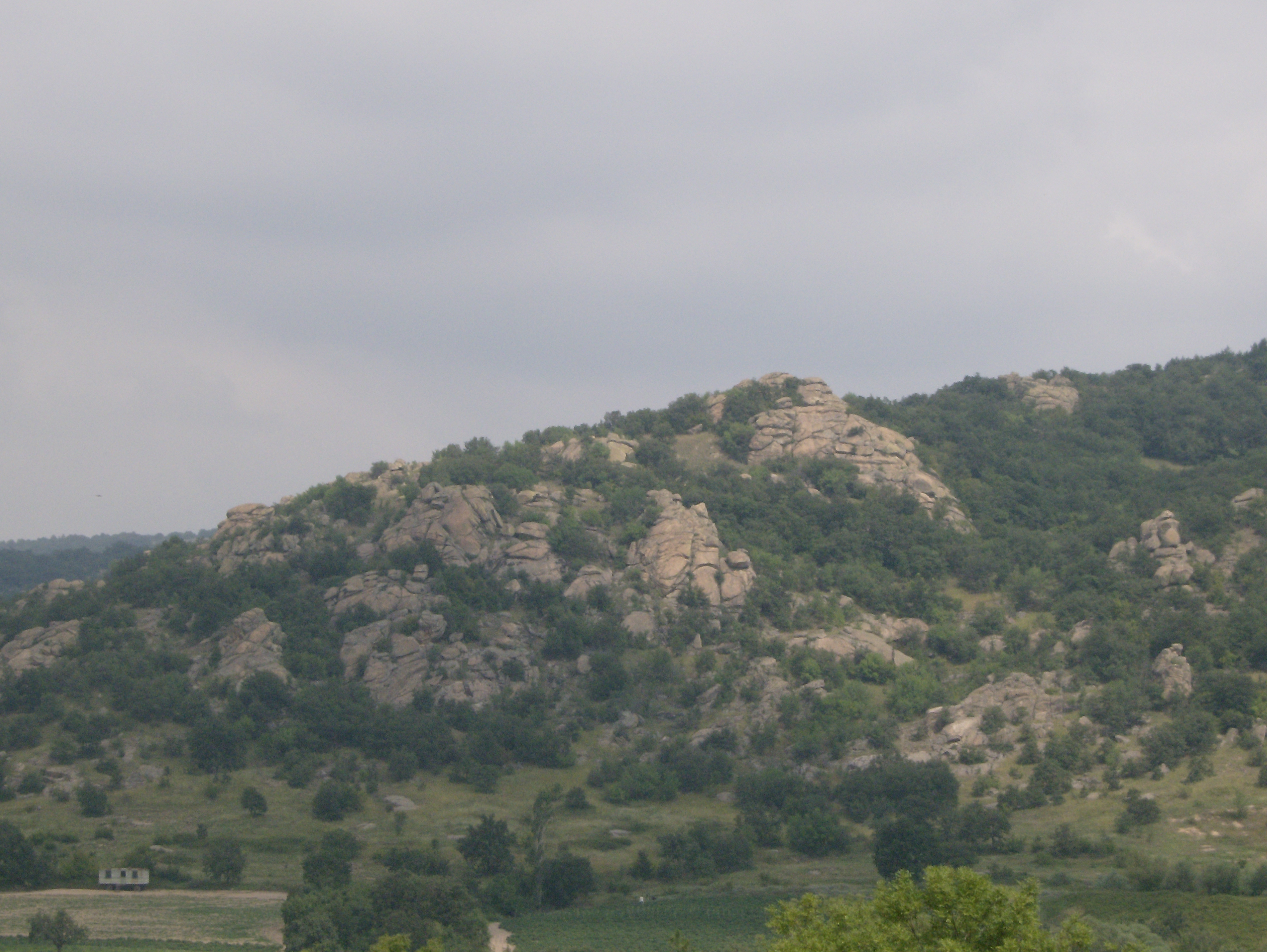 Cherepovo